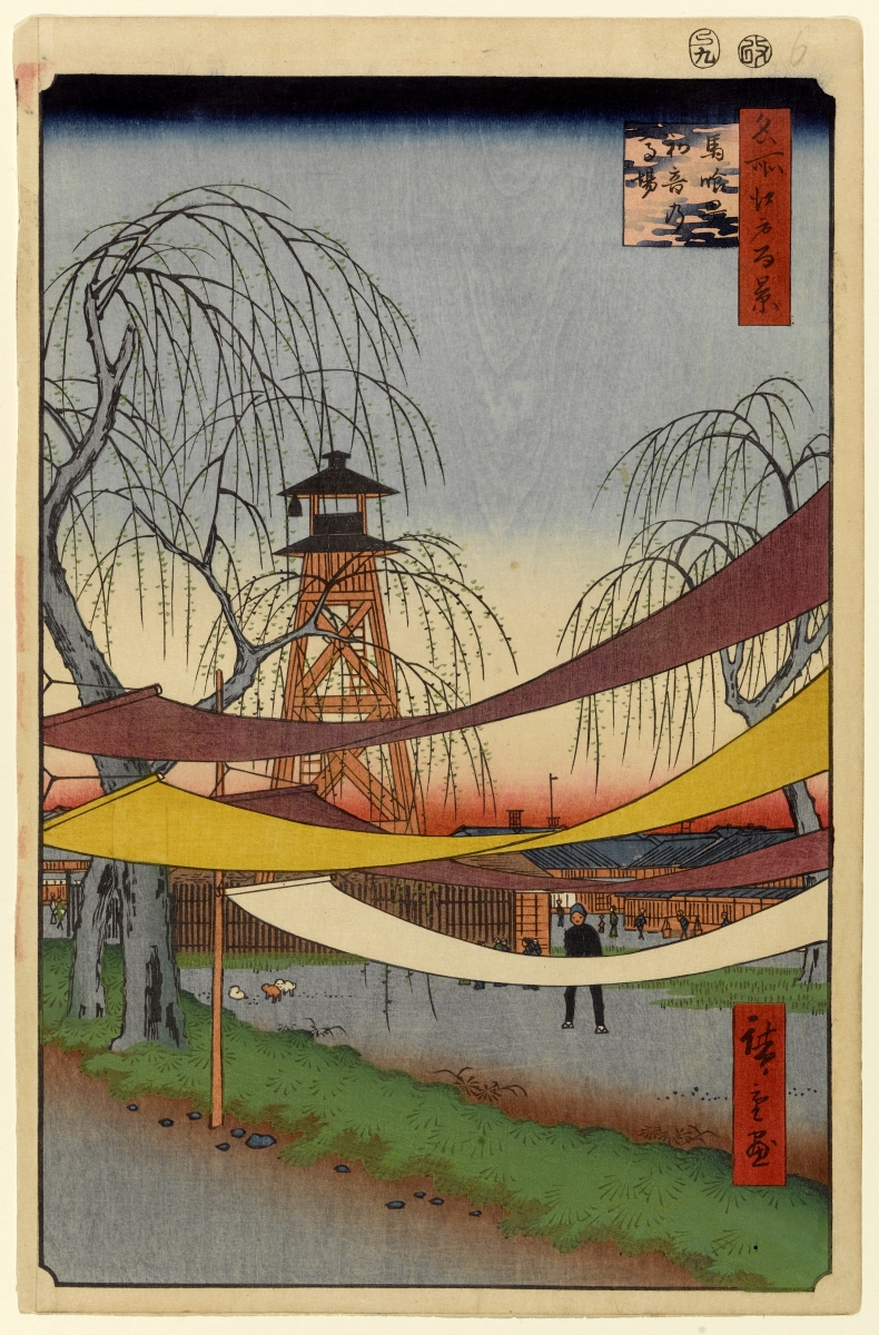 Part of the series One Hundred Famous Views of Edo, no. 006, part 1: Spring.